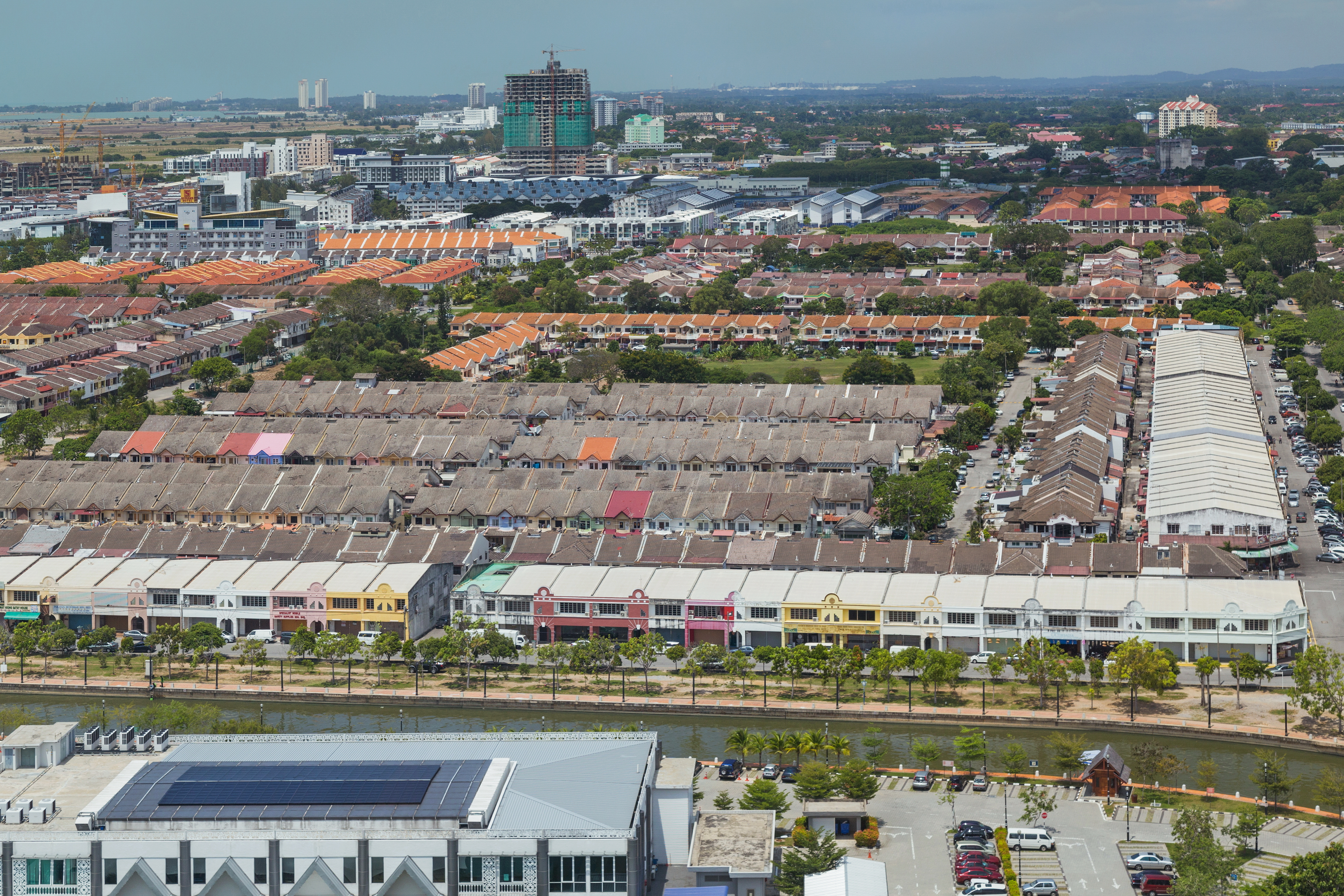 The views of the city seen from the Taming Sari Tower. Malacca City, Malacca, Malaysia.